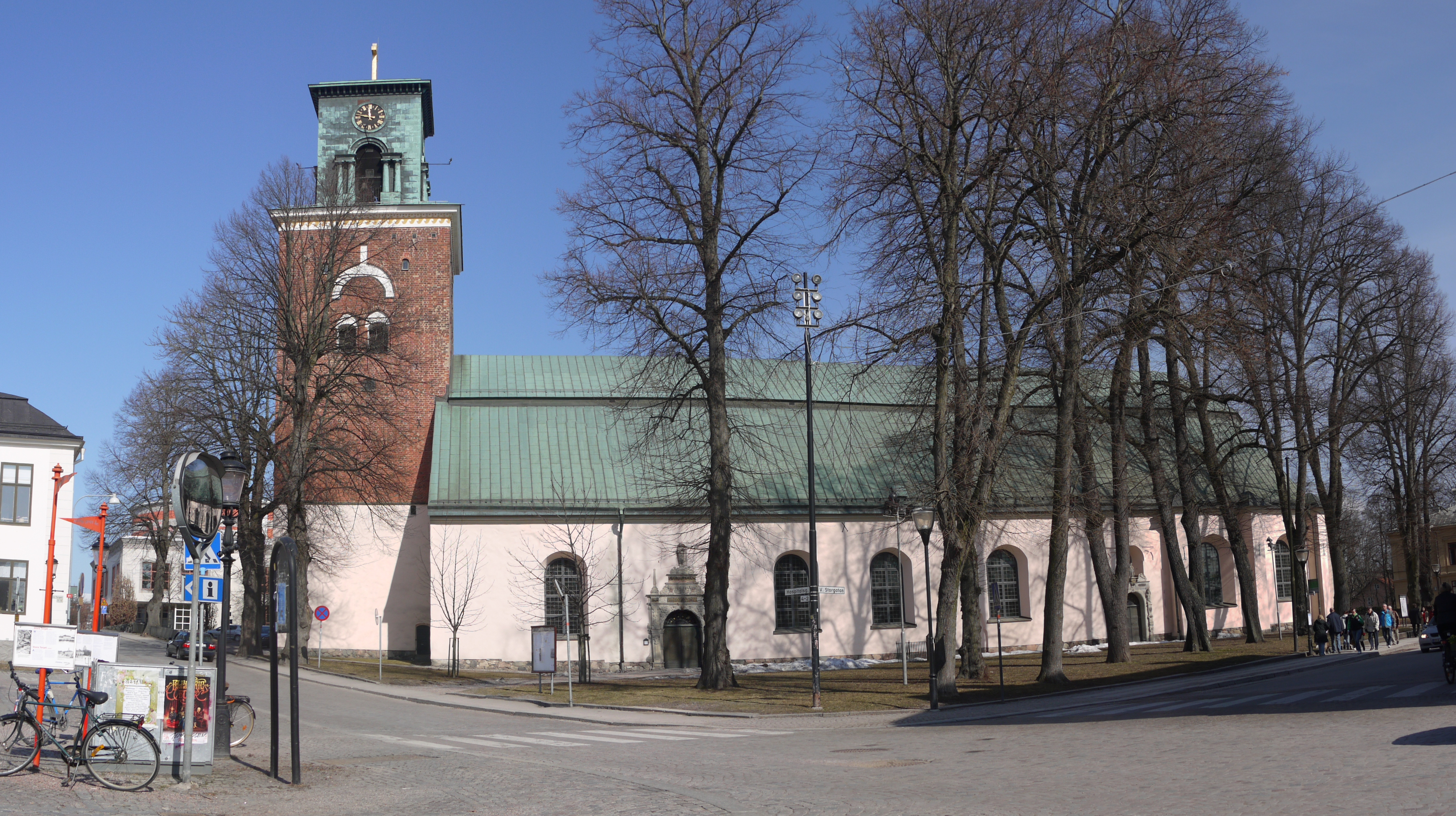 Photographs taken in early morning on the 3rd of april 2010 in Nyköping in Sweden